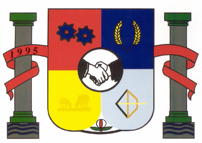 Coat of arms of the city of Benjamin Constant do Sul, Rio Grande do Sul, Brazil.